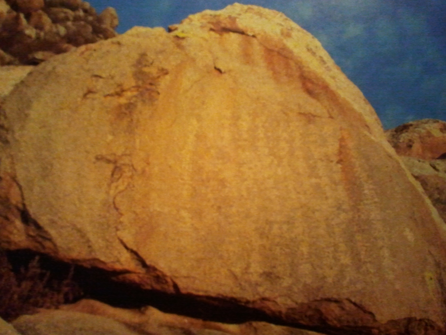 Inscription of Serven Khaalga (1196), Bayankhutag sum, Khentii Province, Mongolia. Bilingual inscription in Chinese characters and Jurchen script. Spaced 18m apart. Found by Kh.Perlee. Each inscription's height 3m, width 4m. Each inscription has 9 vertical lines with 11-16 characters each. Japanese scholar Kato Shimpei read the first line as "Great Golden Central State O-Giao Jeo-Shio" which he said corresponds to the Jinshi's "Wangyang Changxiang" and the Secret History of the Mongols' "Wangin Chenshiang", a high minister of the Jin Emperor. In the 8th line it says "7th year of Mingchang" which led to the conclusion that the inscription was written in 1196, just after the successful joint Jin-Mongol-Kerait campaign against the Tatars. Genghis Khan collaborated with the Jin against the Tatars and was awarded the title "caut-quri" by Wangin Chenshiang while the Kerait Khan Toghrul was awarded the title "wang khan". Genghis Khan would eventually conquer both the Keraits and the Jin Dynasty.